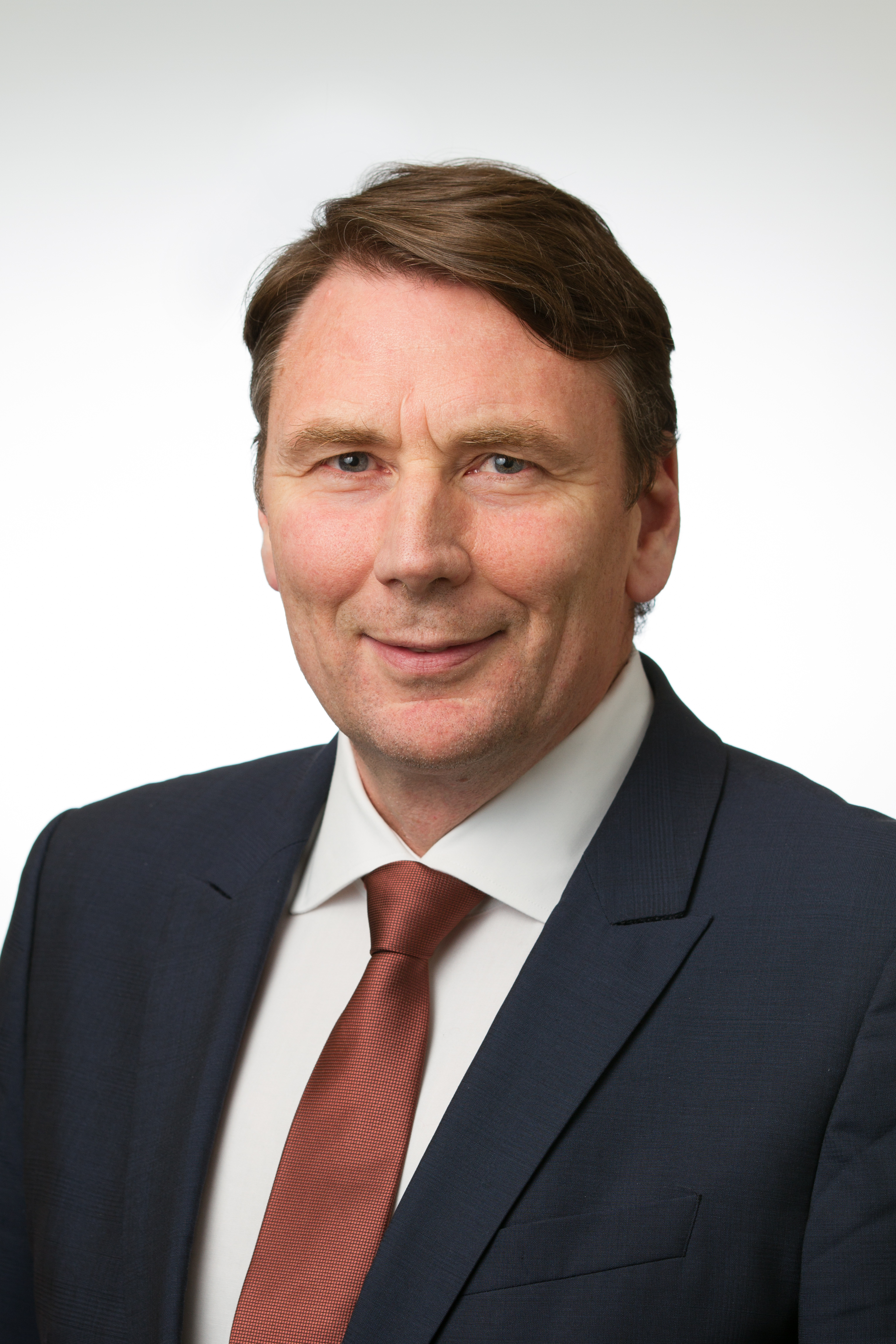 Official portrait of Telstra CEO David Thodey.